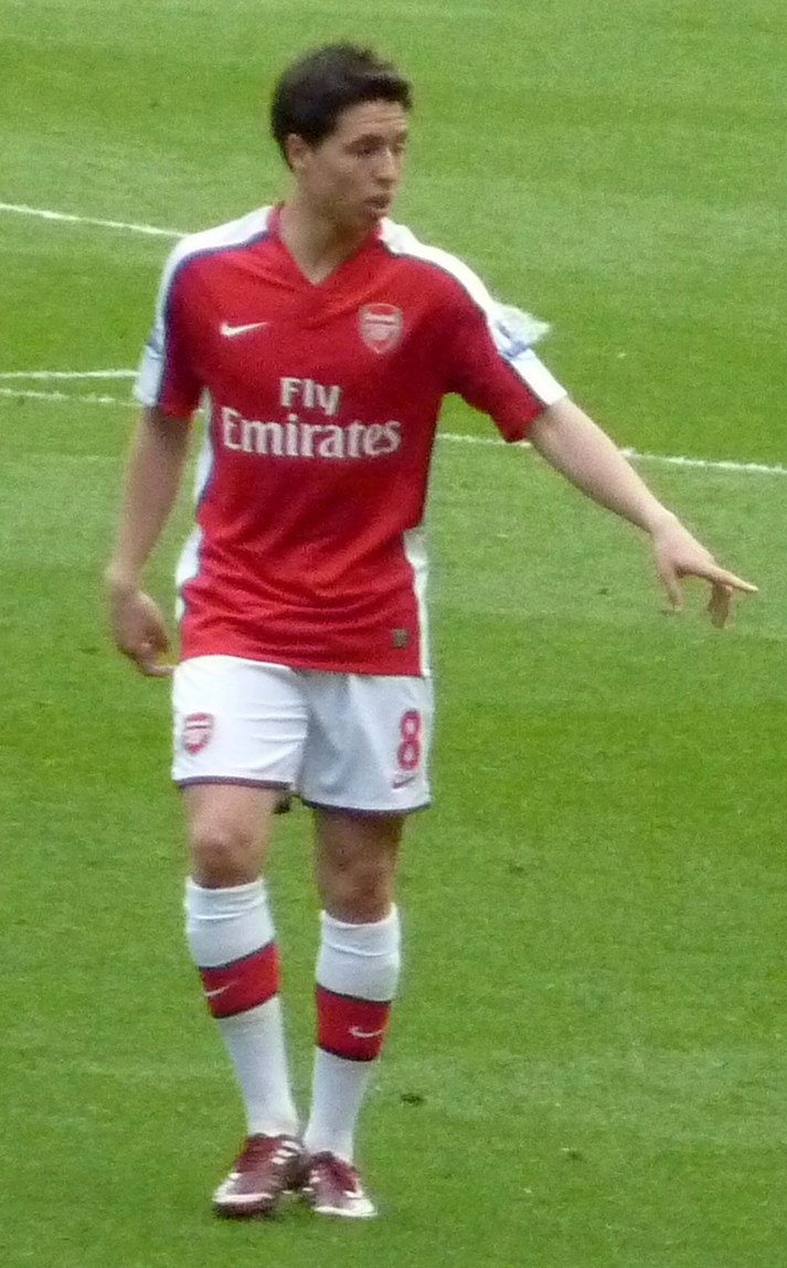 Samir Nasri of Arsenal F.C. This file has been extracted from another file: José Bosingwa vs Arsenal.jpg